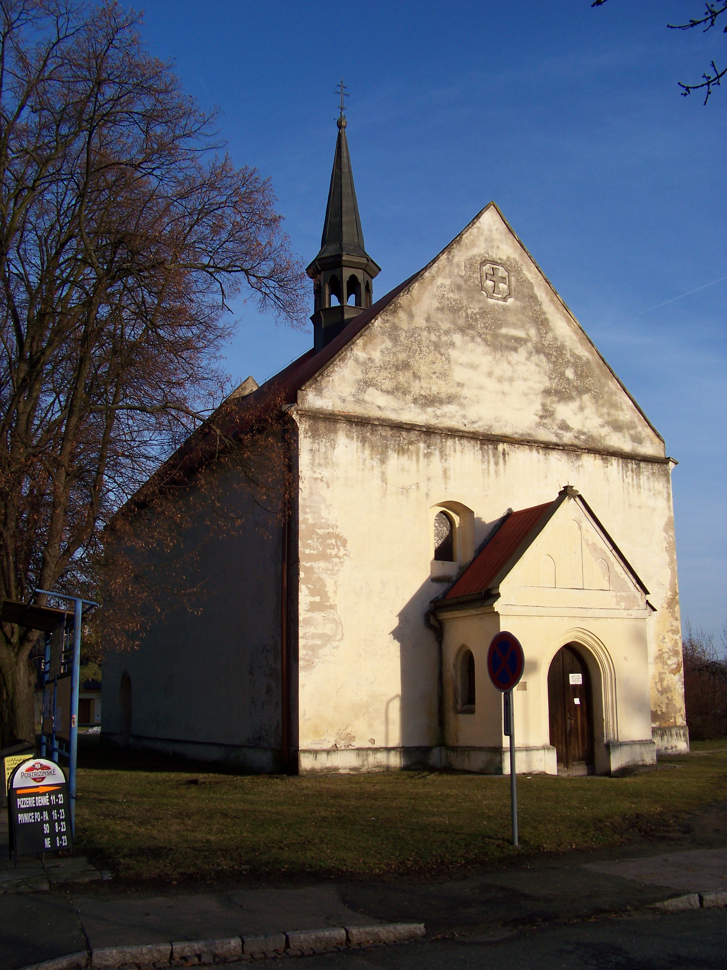 Nymburk, Nymburk District, Central Bohemian Region, the Czech Republic. Tyršova, church of Saint George.